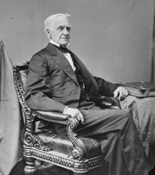 Hon. Francis Thomas of Maryland.